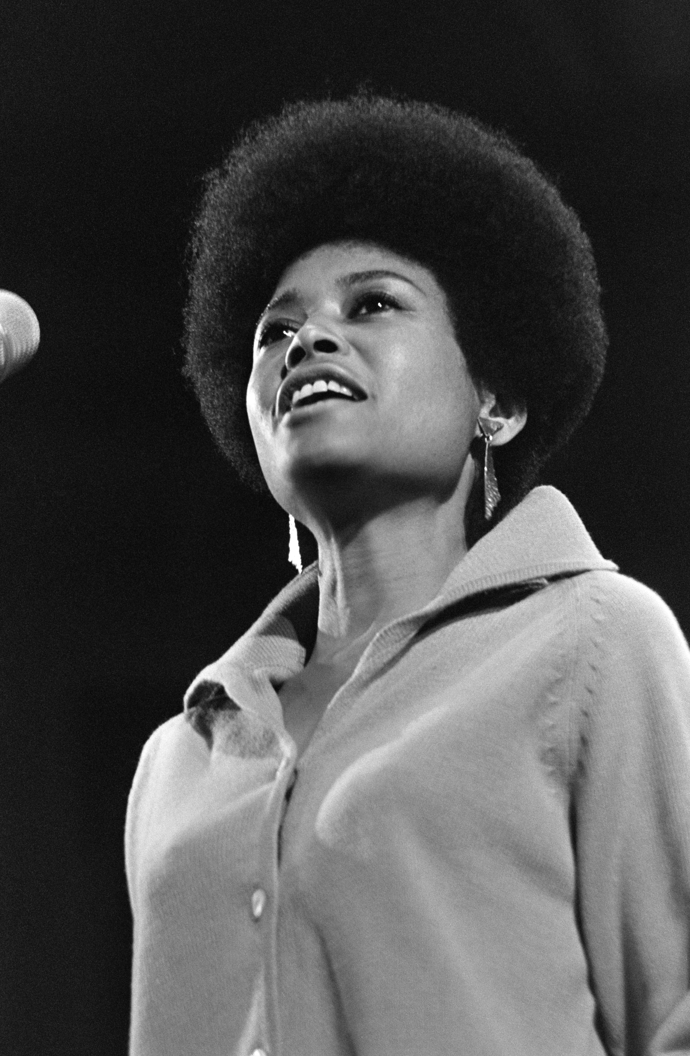 Abbey Lincoln in the Concertgebouw in Amsterdam on 13 July 1966